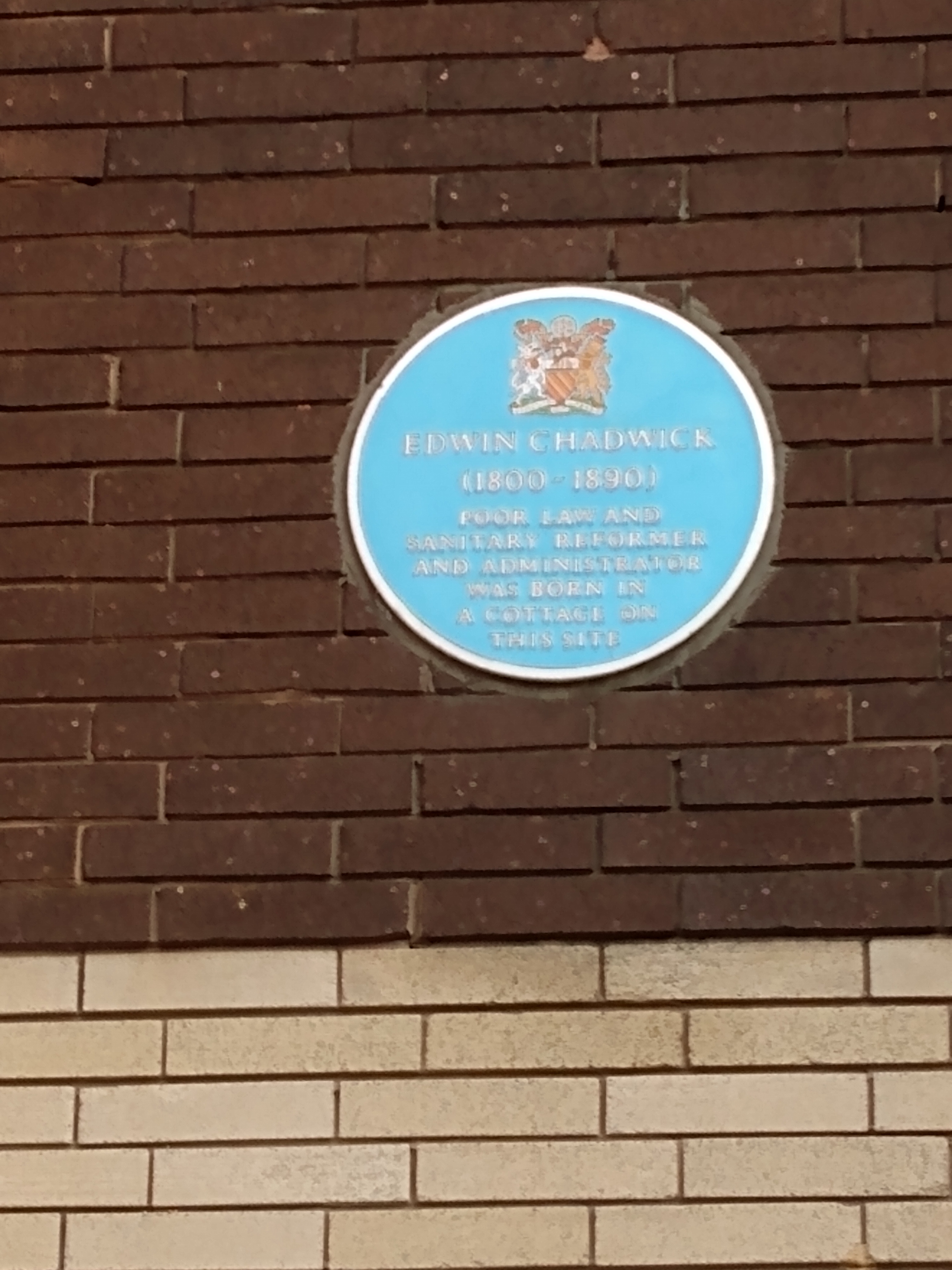 Blue plaque attached to 5 Kingfisher Close, Longsight, Manchester viewed from Stockport Road